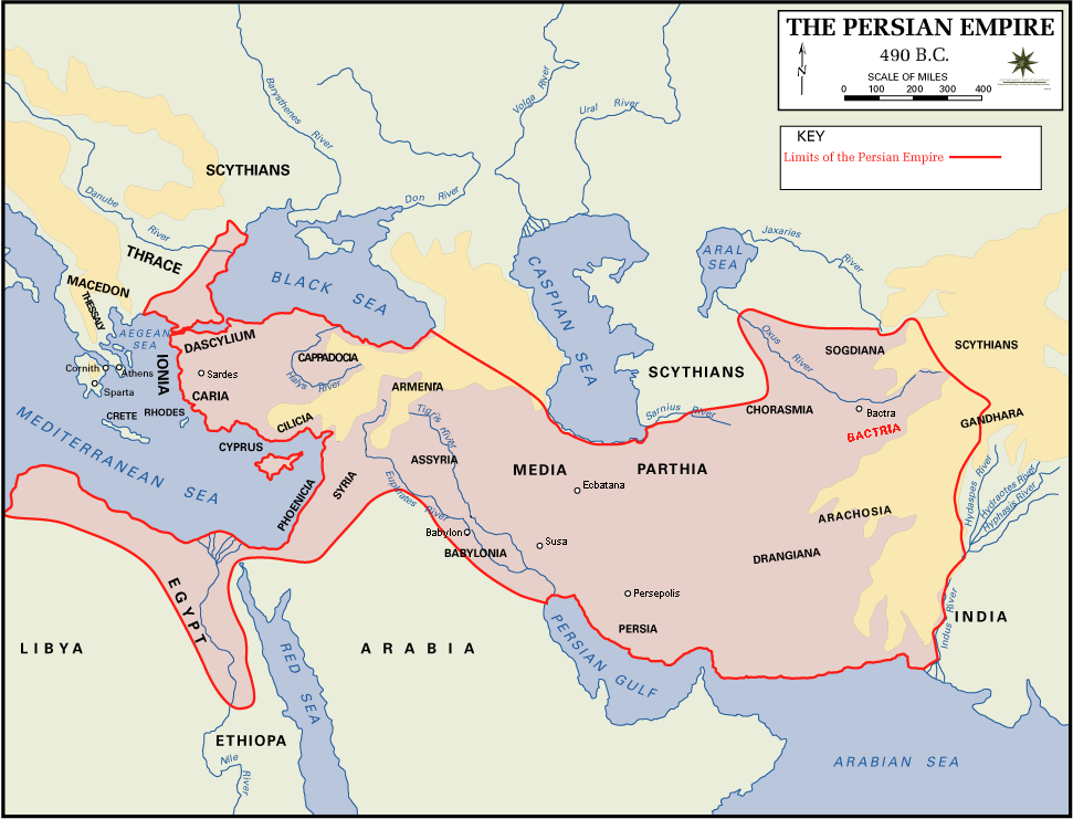 The Persian Empire in 490 BC.